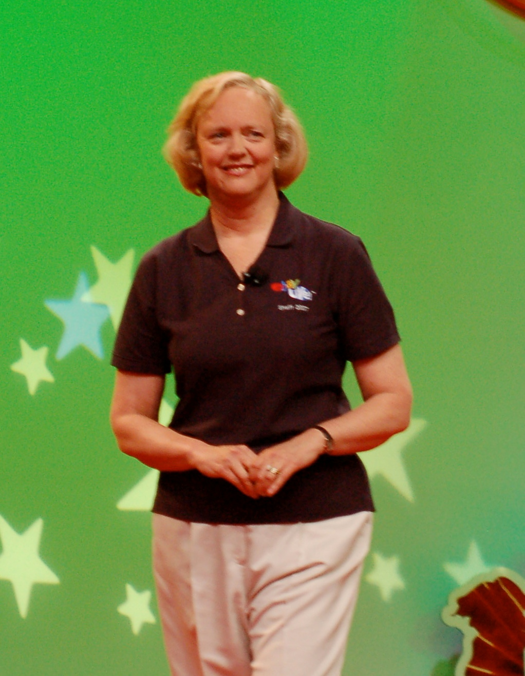 Former eBay CEO Meg Whitman